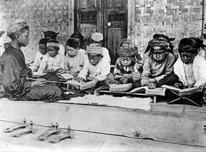 Negative. A Quranic school in Java